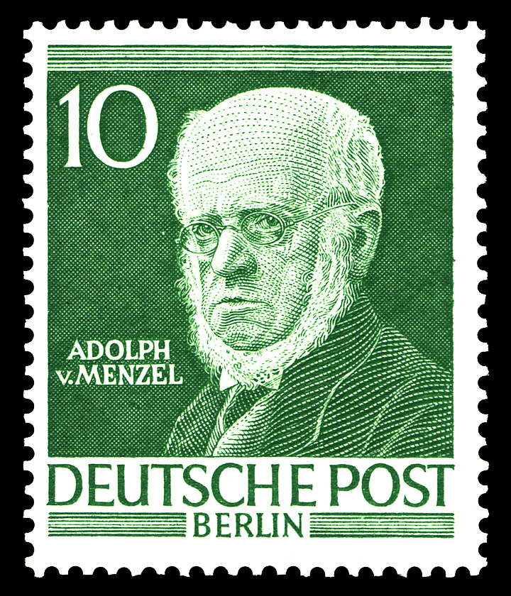 stamp series, men of the history of Berlin I, Adolph von Menzel, (1815-1905)